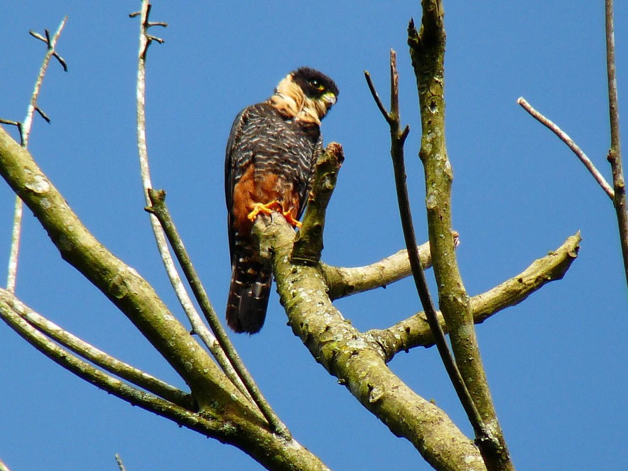 A Bat Falcon in Manizales, Caldas, Colombia.